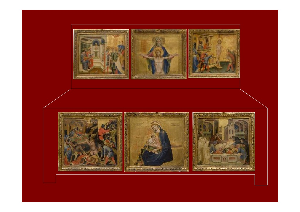 Niccolo Semitecolo's altar reconstruction option.